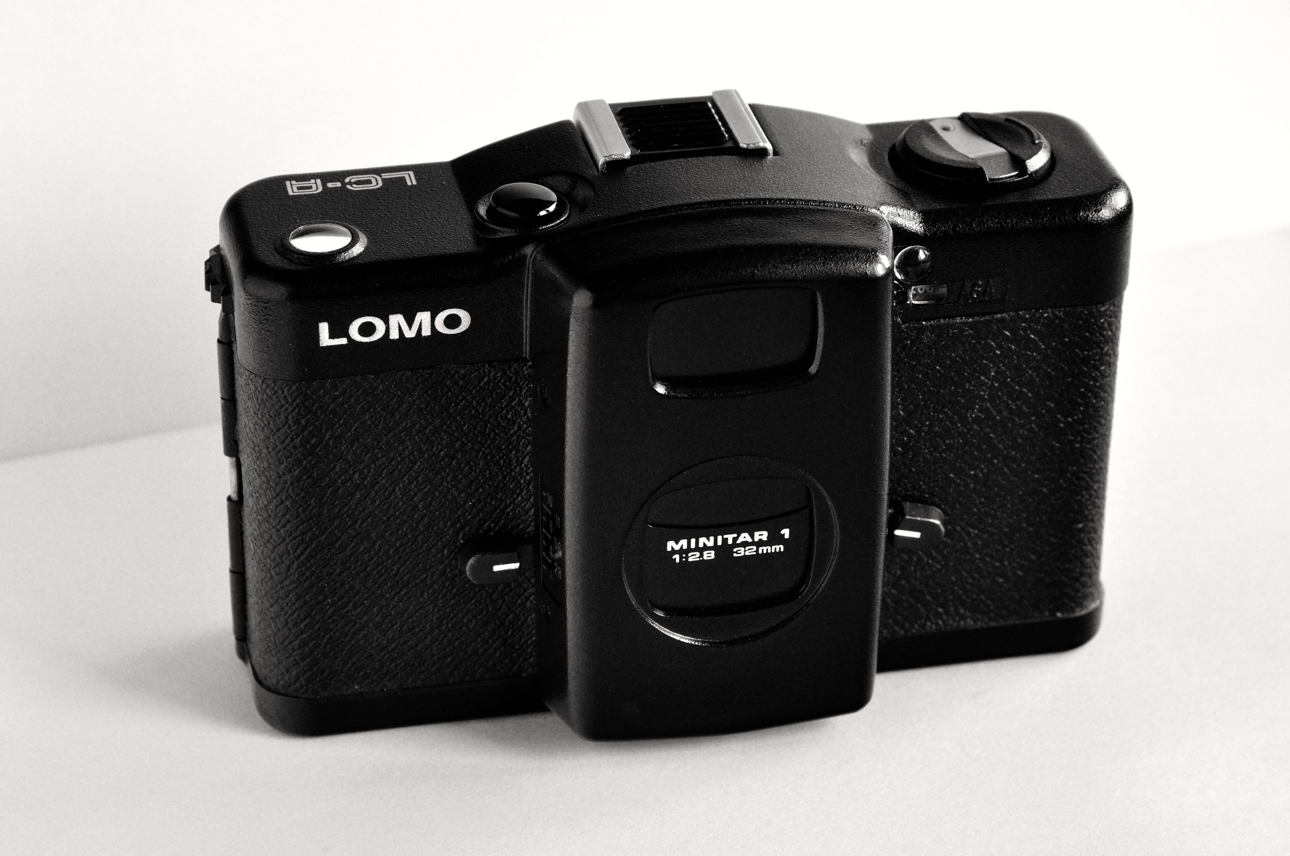 Photo kamera Lomo LC-A build in 1987.